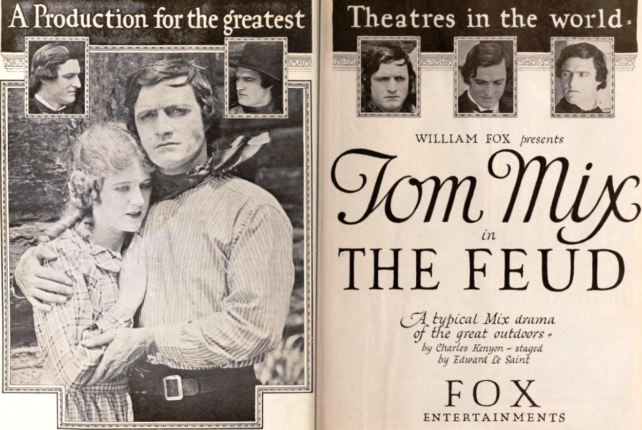 Advertisement for the American drama film The Feud (1919) with Eva Novak and Tom Mix, on pages 16 and 17 of the December 20, 1919 Exhibitors Herald.